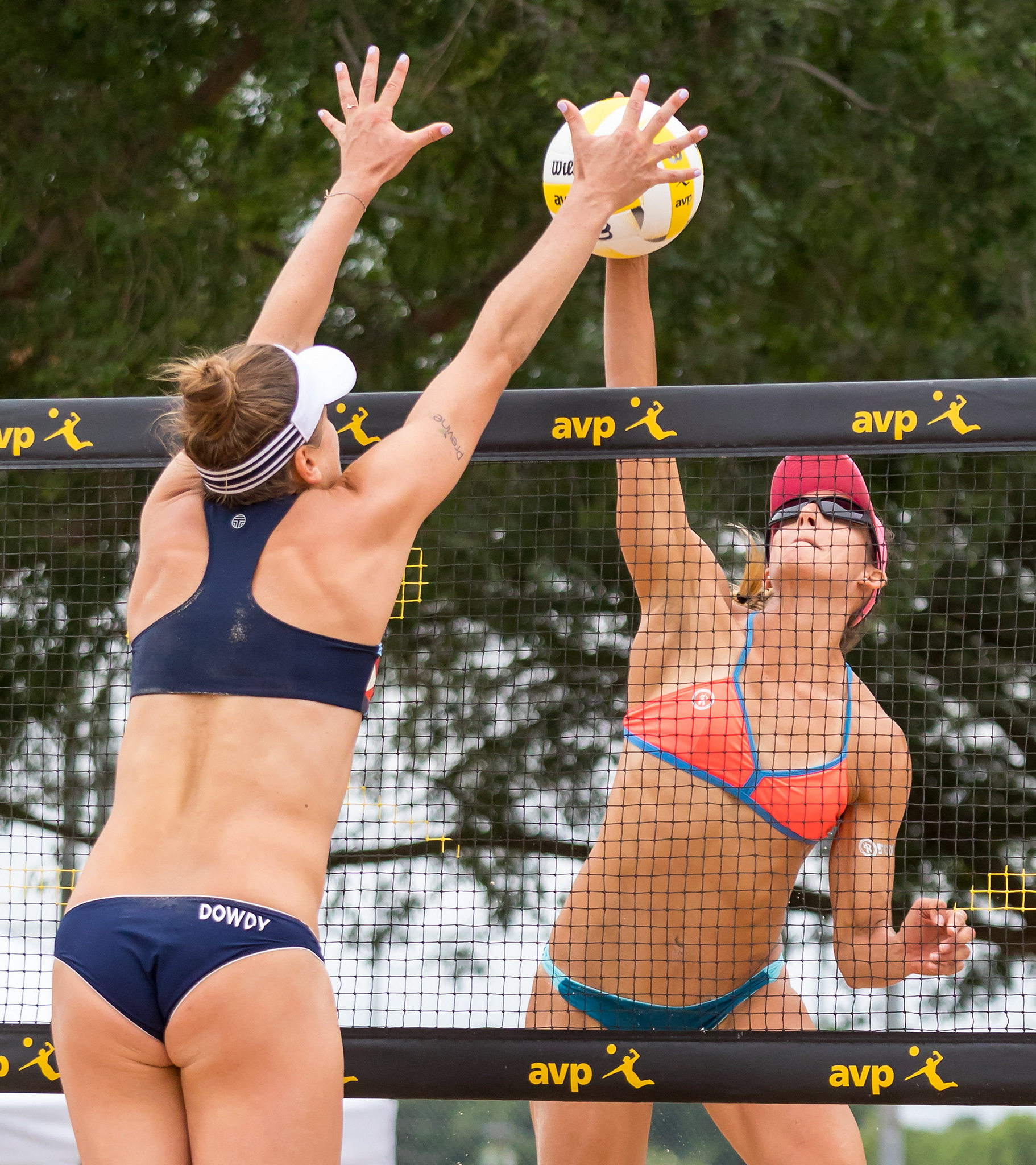 AVP Austin Open professional beach volleyball tournament in Austin, Texas on May 21, 2017.